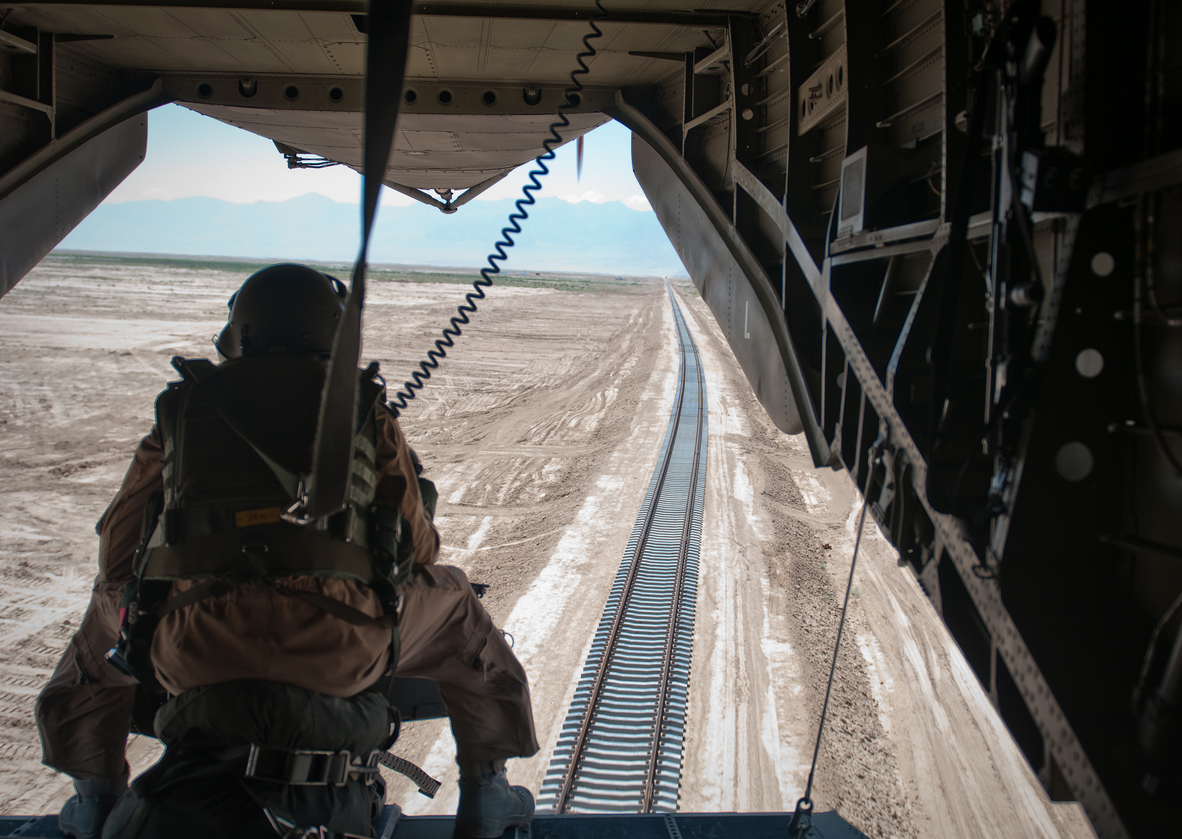 100527-N-1928O-007 BALKH PROVINCE, Afghanistan (May 20, 2010) – The rear-gunner in a Sikorsky UH-53 helicopter watches the end of the new Mazar-e-Sharif to Termez, Uzbekistan railroad stretch into the distance. When completed, the 47-mile long line will provide a valuable commercial link between Afghanistan and Uzbekistan across the Amu Darya River. (Photo by U.S. Navy Mark O’Donald/Released)